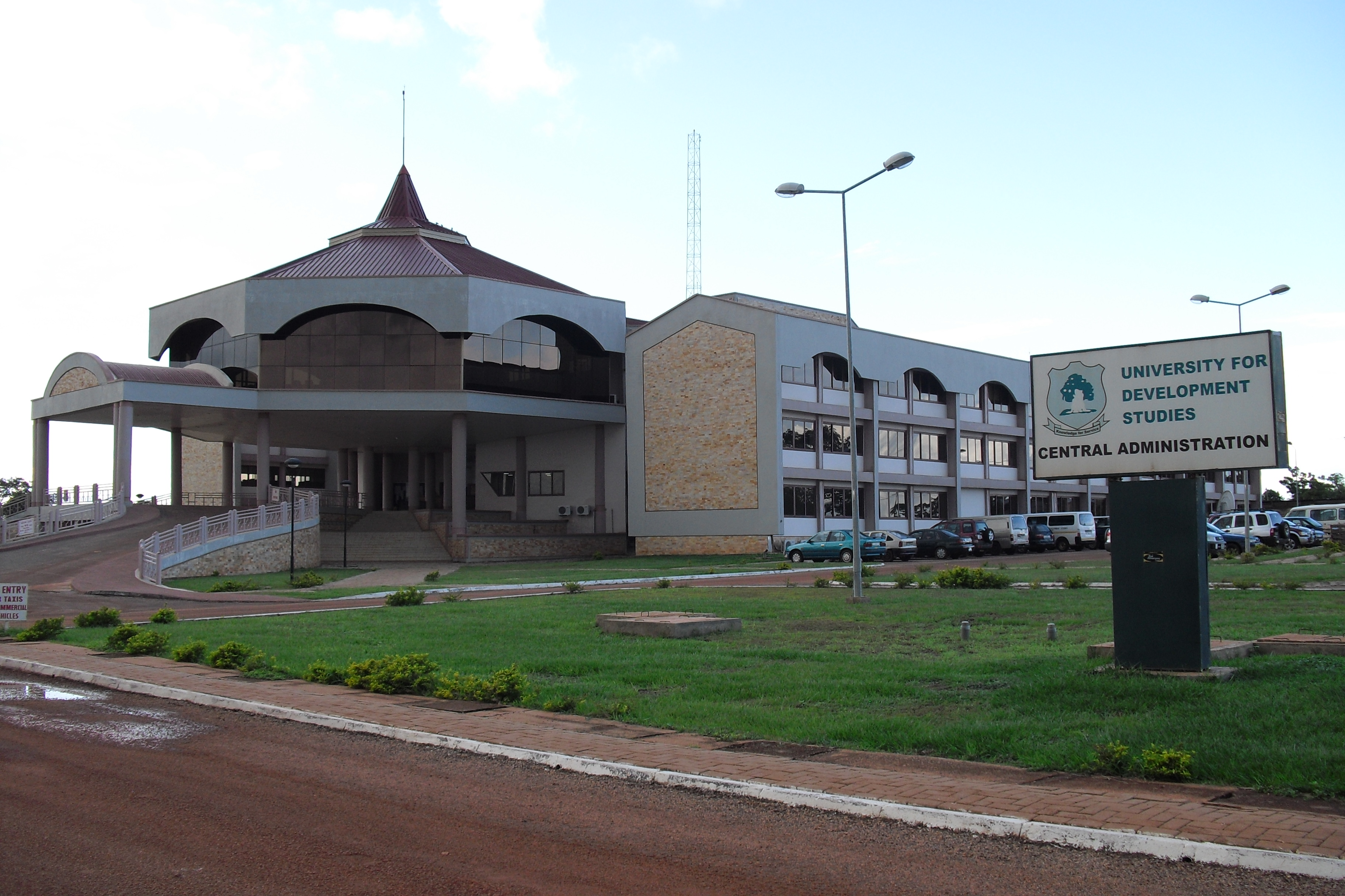 The entrance of the central administration block of the new University for Development Studies (UDS) in Tamale